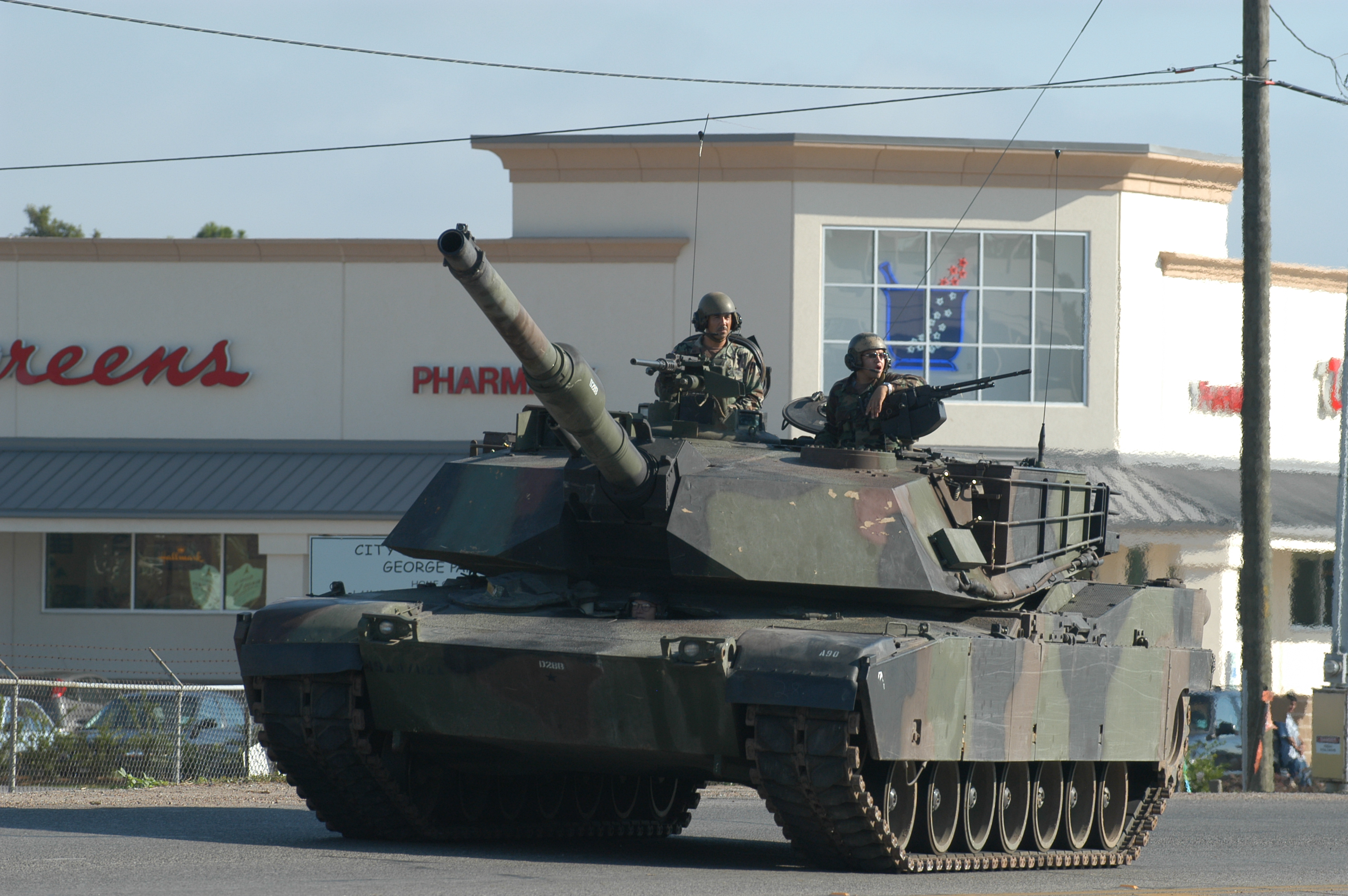 M1 Abrams at the Fort Bend County Fair Parade